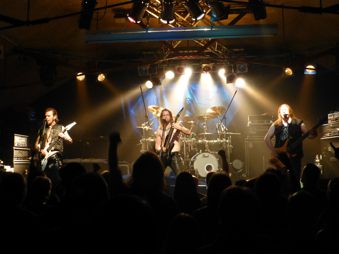 Týr live at the Robin2, Bilston, Wolverhampton in October 2013.